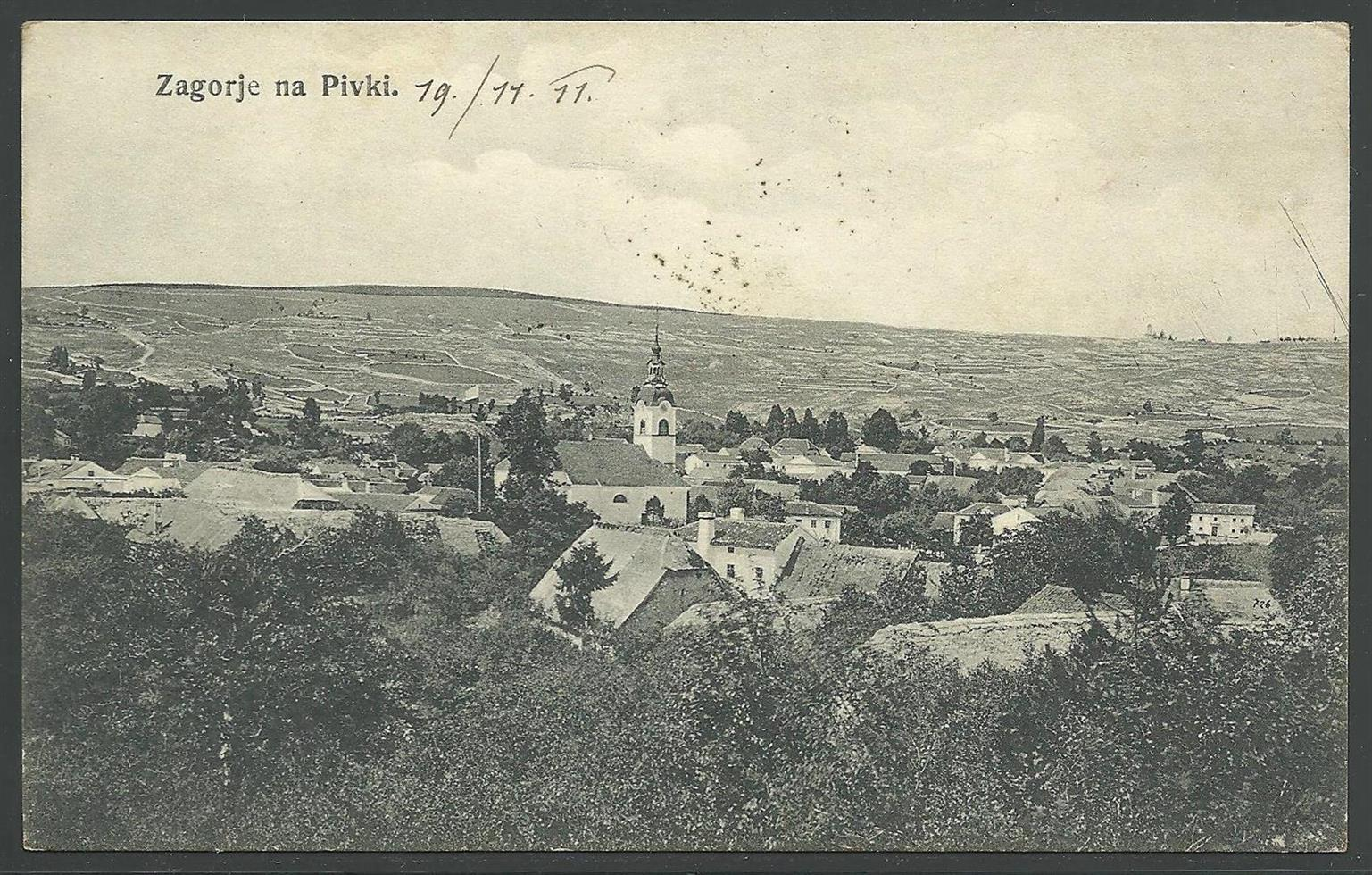 Postcard of Zagorje.